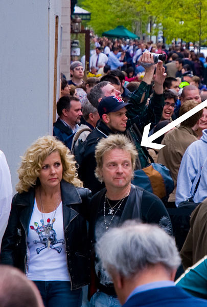 Joey Kramer and his wife at the Apple Store Boylston Street opening day.